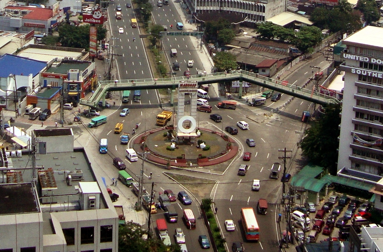 An aerial shot of Welcome Rotonda in Quezon Avenue, Quezon City.